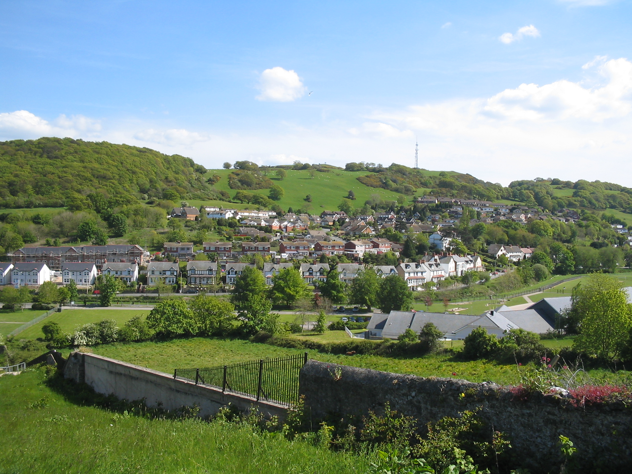 A view of part of Conwy. The walled part of town is 90 degrees to the left (off the picture). David Benbennick took this photo on May 13, 2005 at 3:49 PM (14:49 UTC).